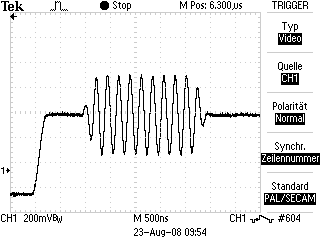 Color Burst from a PAL-Signal after the line synchronization impuls